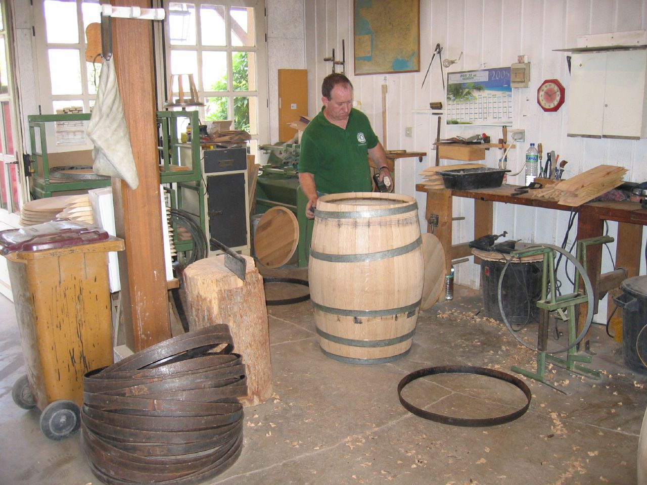 At the Bordeaux Producer Chateau Haut-Brion Cooperage